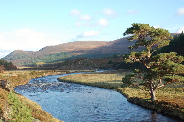 A Scots pine by the River Feshie. Glen Feshie is studded with magnificent Scots pines; this one is close to the river bank, and Ailith Stewart's photograph 15770 taken in 2002 shows the same tree with the river apparently a little further away. How long it will take for the tree to fall victim to bank erosion?